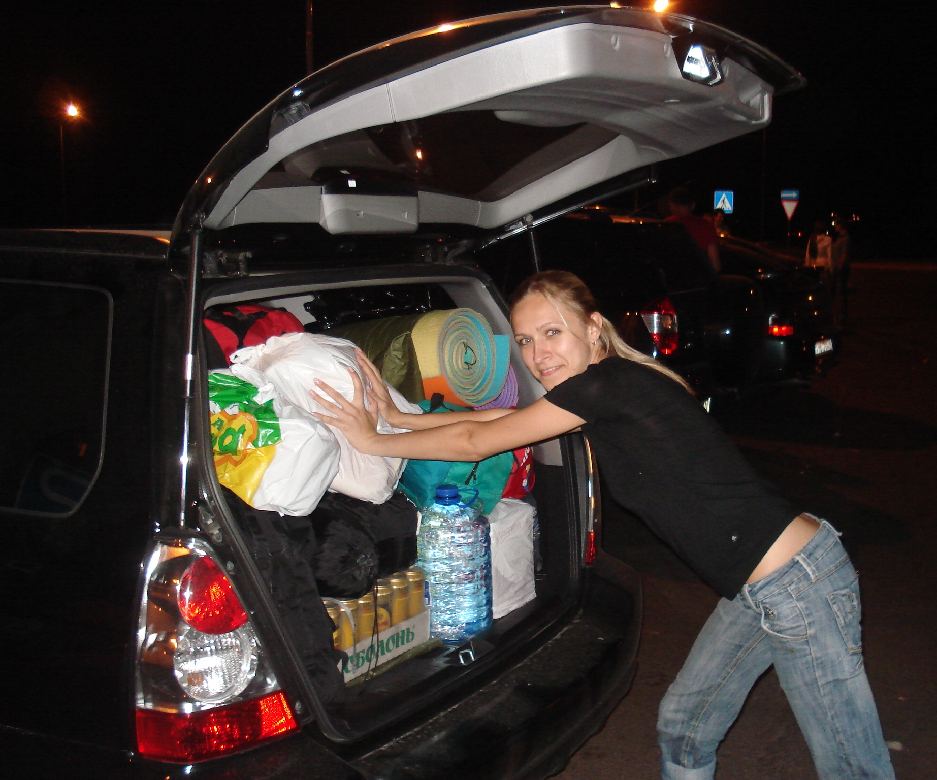 Avtoturism_in_UA_2008